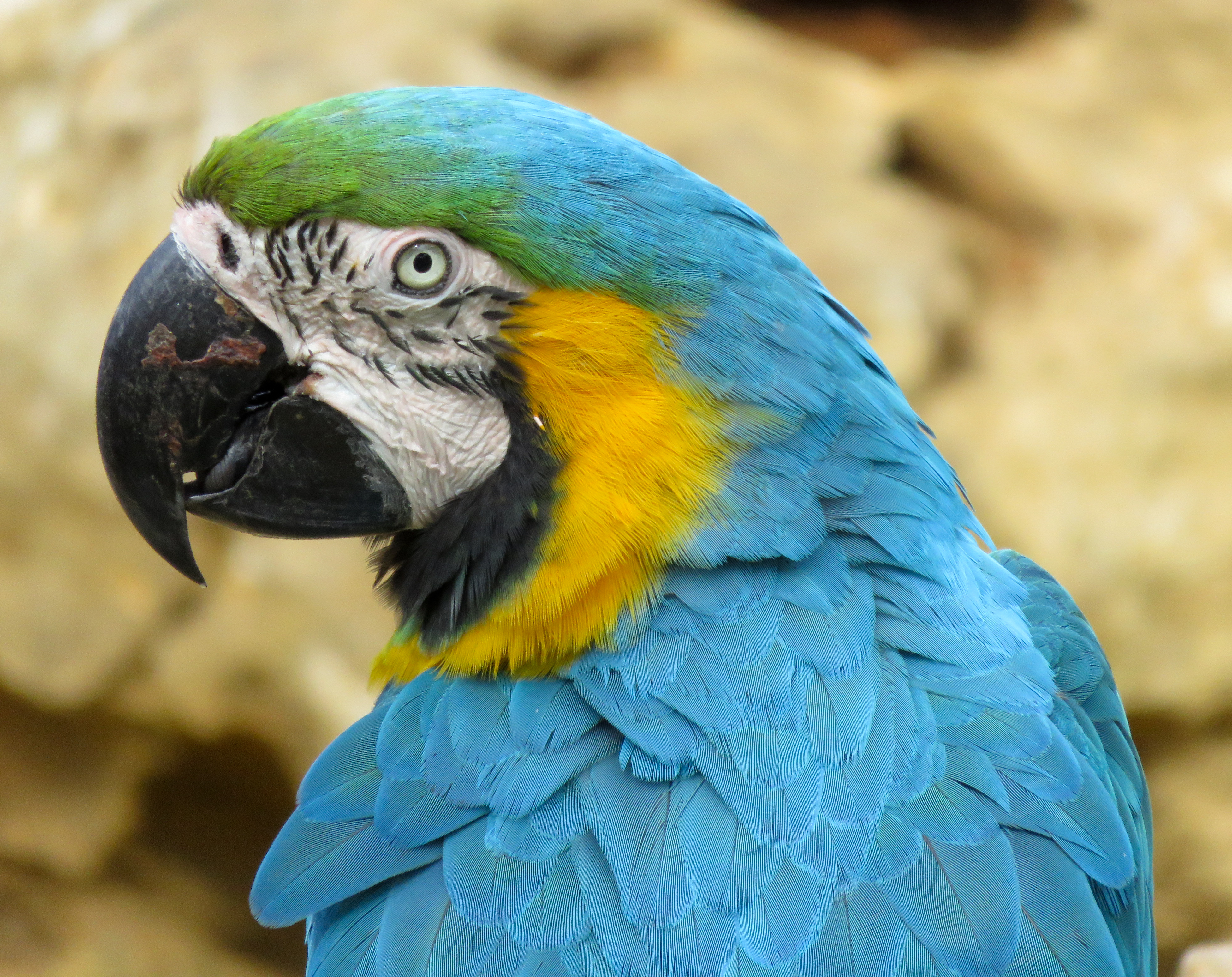 Head of a Blue-and-gold macaw at Planète Savage, Pornic, France